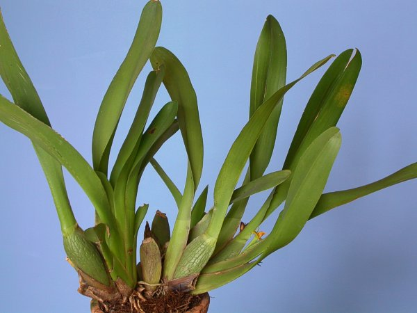 Heterotaxis crassifolia